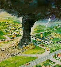 An artist's conception of a tornado disaster at a school.